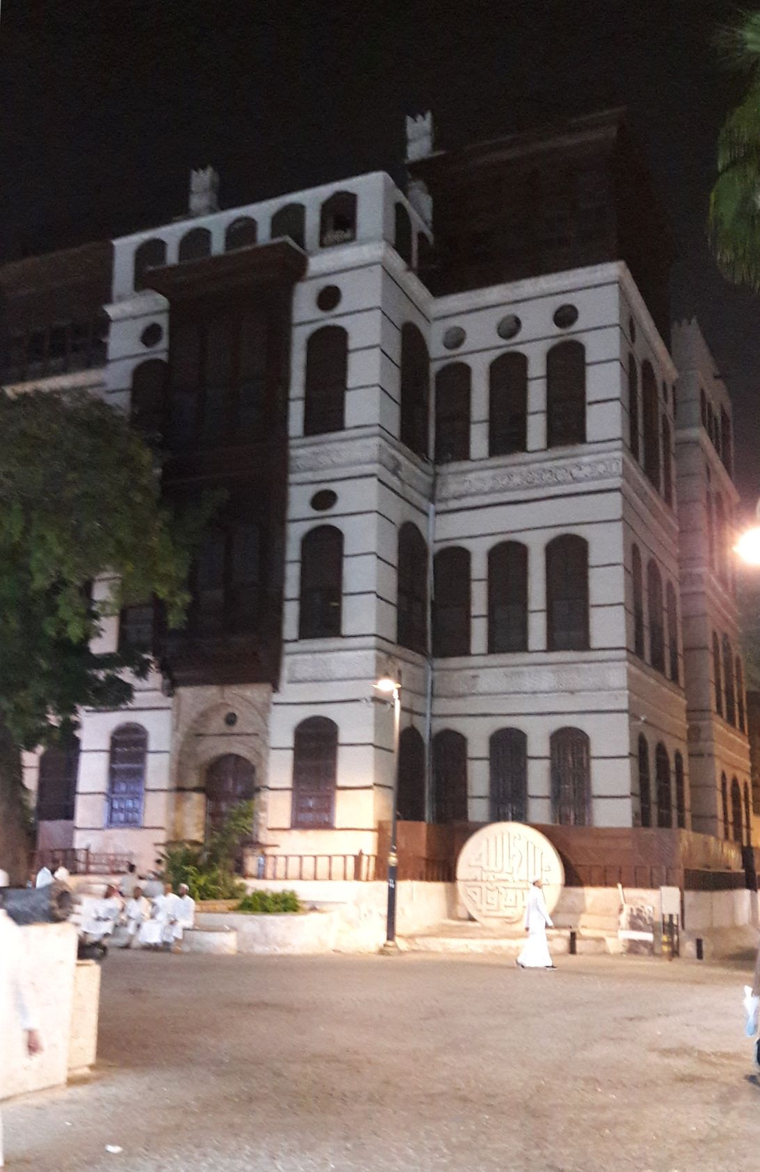 Naseef House, Old Jeddah